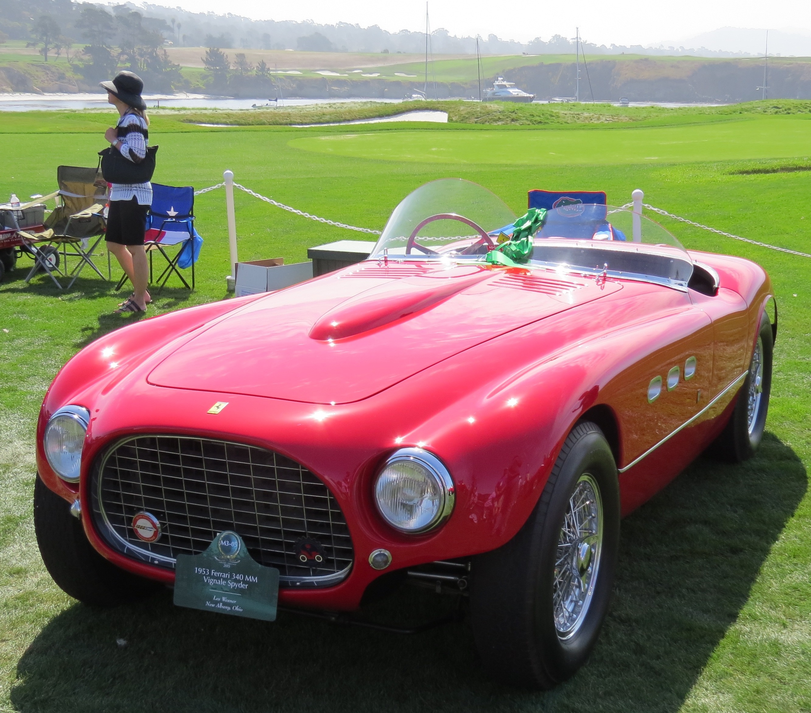 1953 Ferrari 340 MM Vignale Spider s/n 0350AM at the 2015 Pebble Beach Concours d'Elegance.